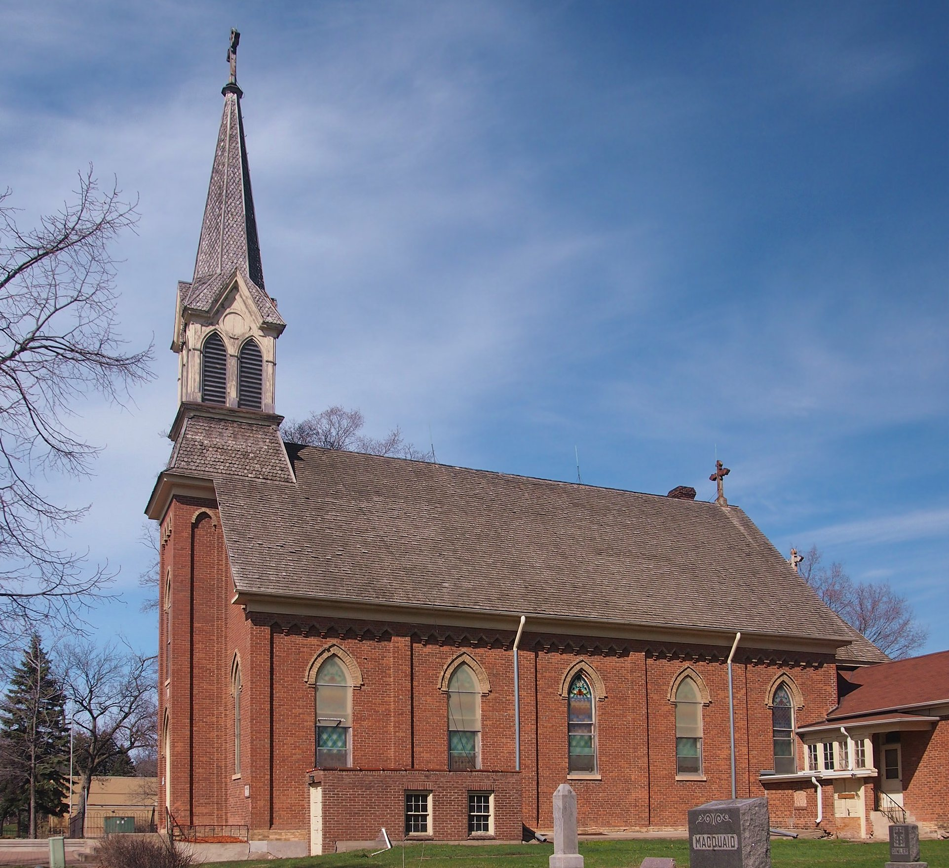 Church of St Hubertus, 7801 Great Plains Blvd, Chanhassen, Minnesota, USA. Viewed from the south-southwest.